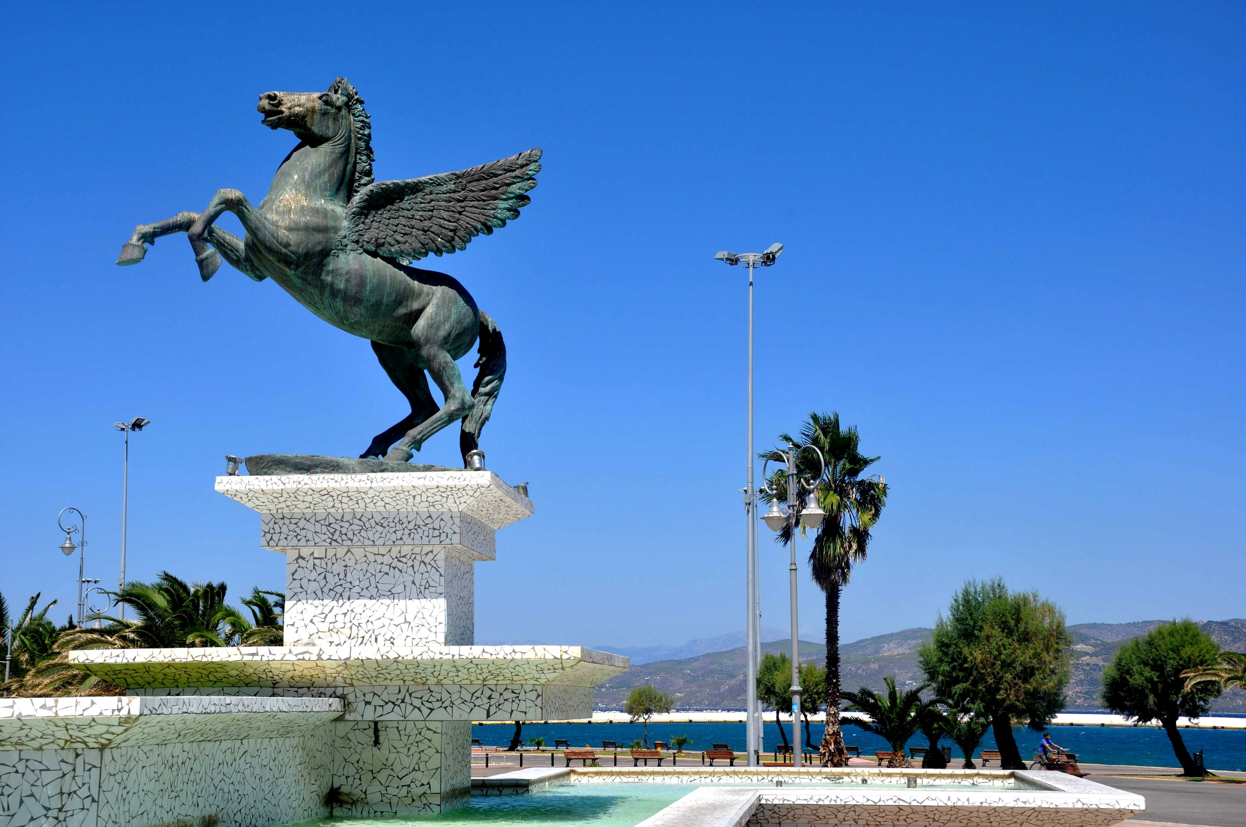 Pegasus - the symbol of New Corinth at Pegasus square (Square Eleftherios Venizelos) in Corinth, Greece.